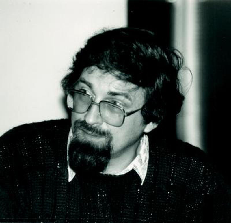 Wilfrid Hodges, Oberwolfach 1988